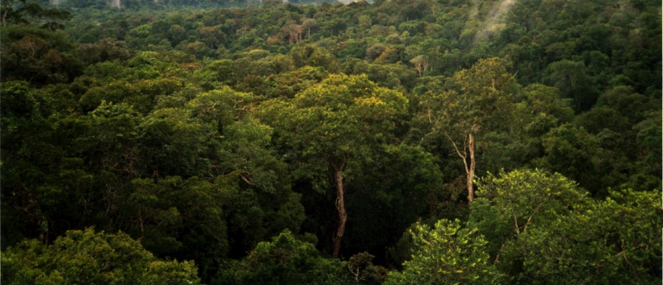 View of Amazon basin forest north of Manaus, Brazil. Image taken from top of a 50 m tower for meteorological observations, and the top of vegetation canopy is typically 35 m. The image was taken within 30 minutes of a rain event, and a few white 'clouds' above the canopy are indicative of rapid evaporation from wet leaves after the rain.